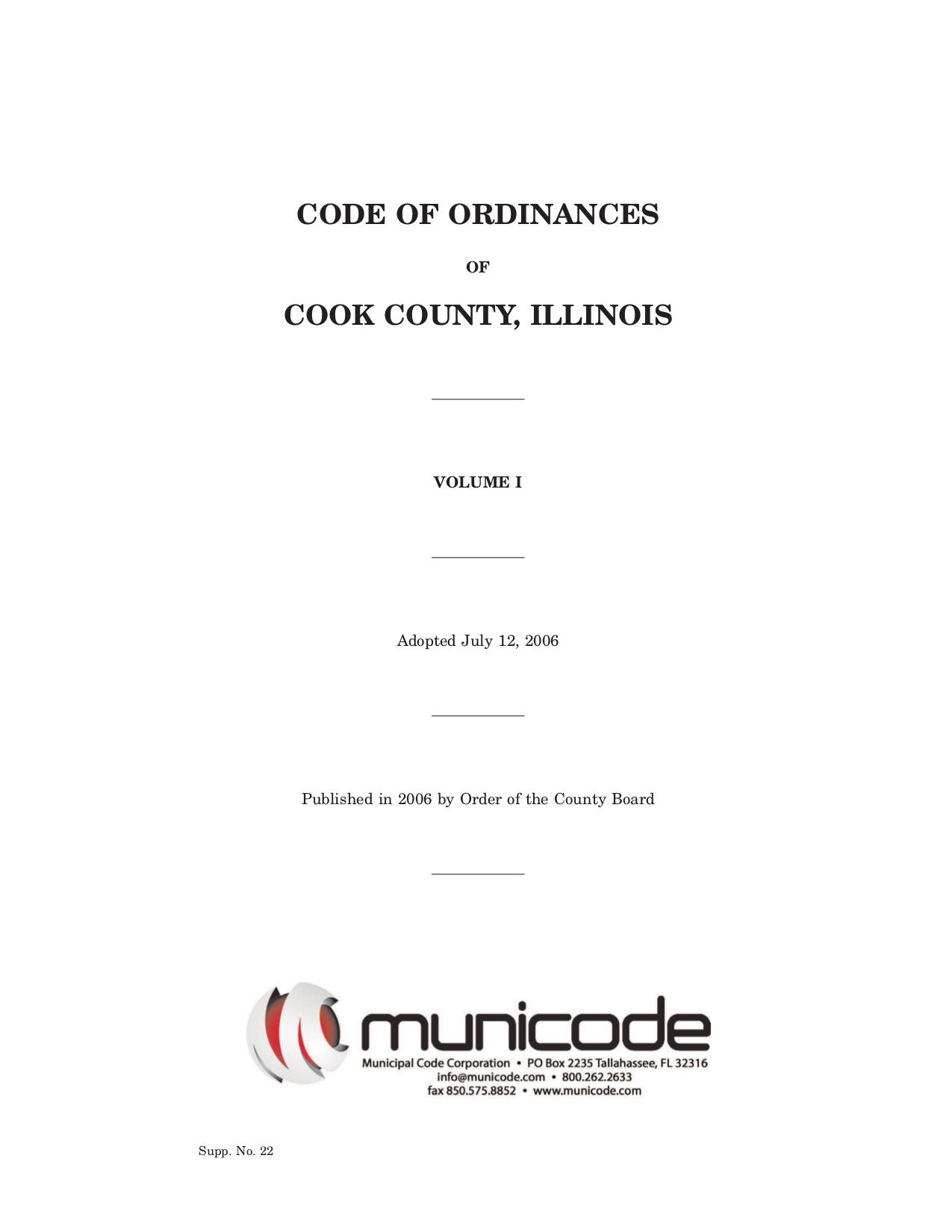 Title page of a 2013 supplement of the Code of Ordinances of Cook County, Illinois.